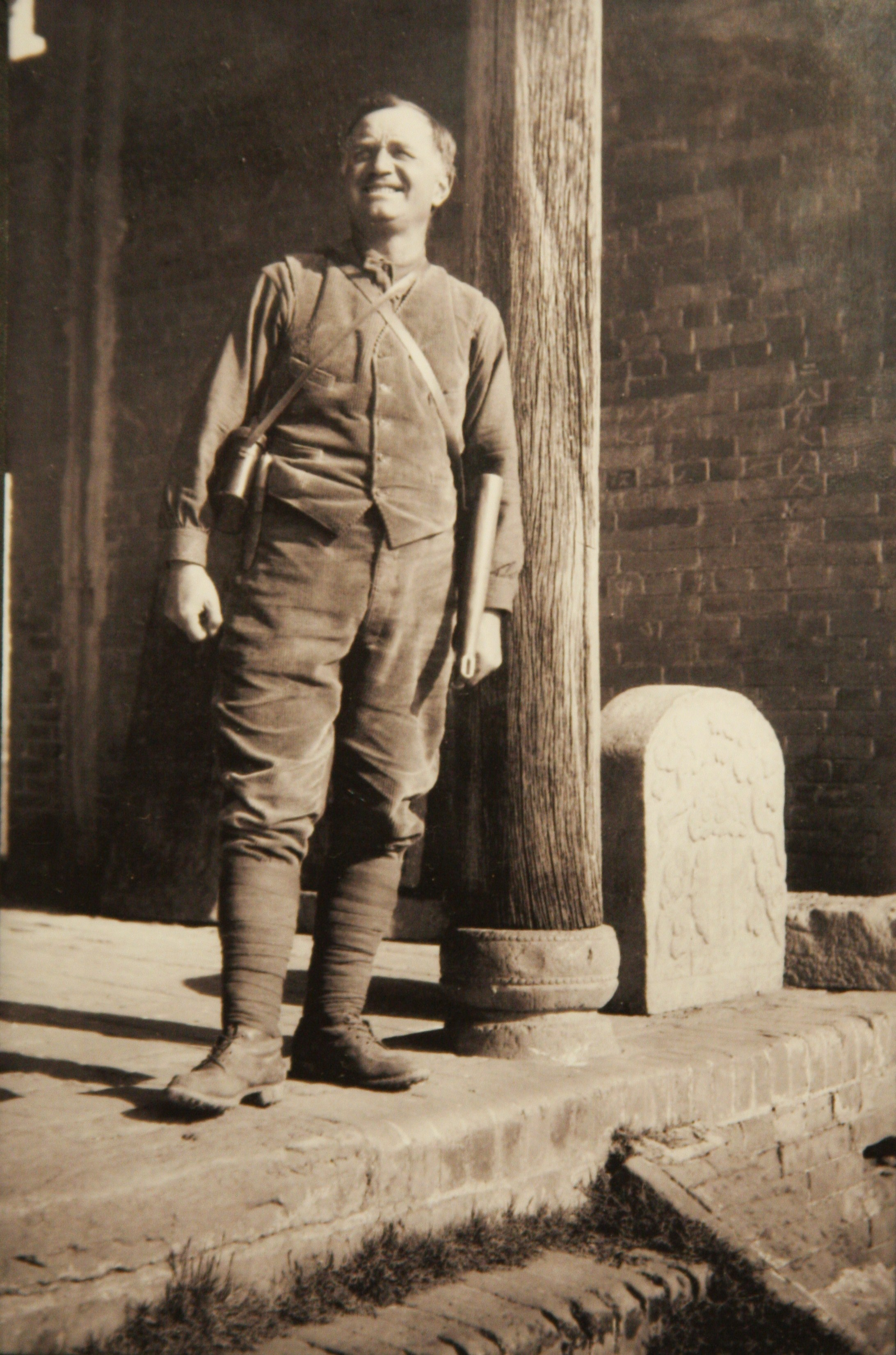 Johan Gunnar Andersson in the field, at work as a geologist in Henan province in 1918.